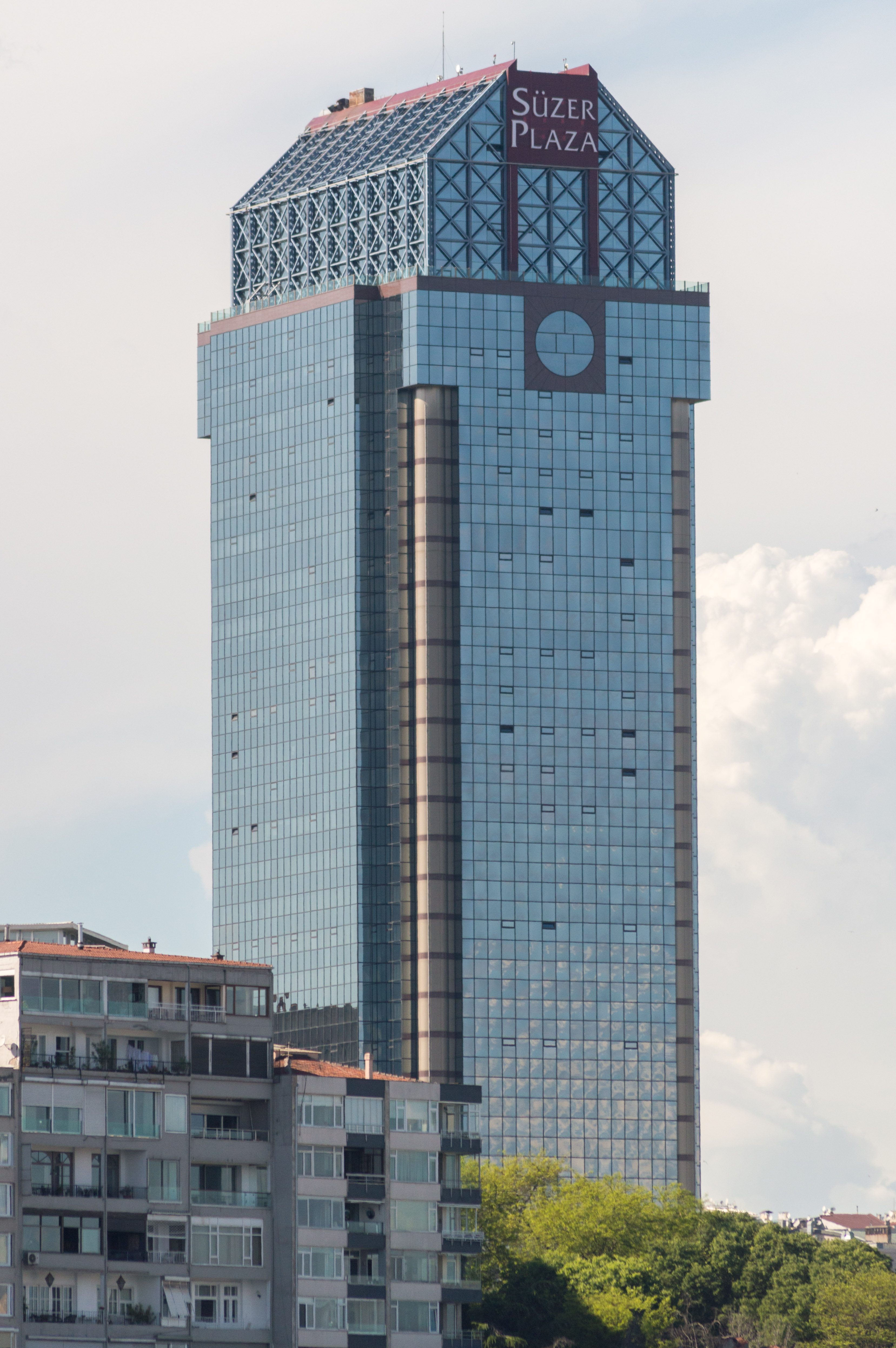 The Ritz-Carlton in Istanbul as seen from a Bosphorus tour.